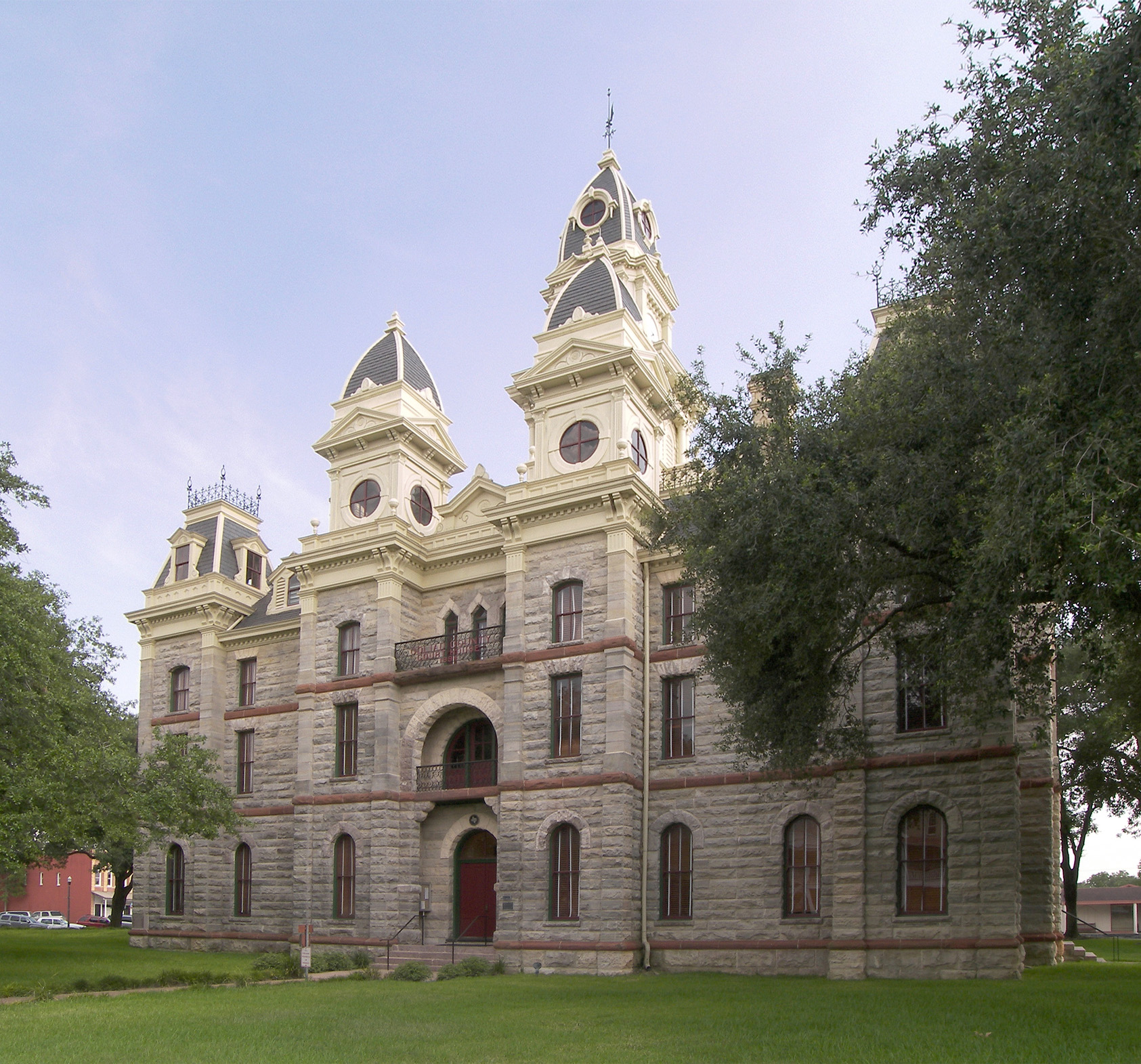 The Goliad County, Texas courthouse located in Goliad, Texas, United States. The courthouse was designated a Recorded Texas Historic Landmark in 1964, and the courthouse and surrounding square were listed on the National Register of Historic Places on June 29, 1976.